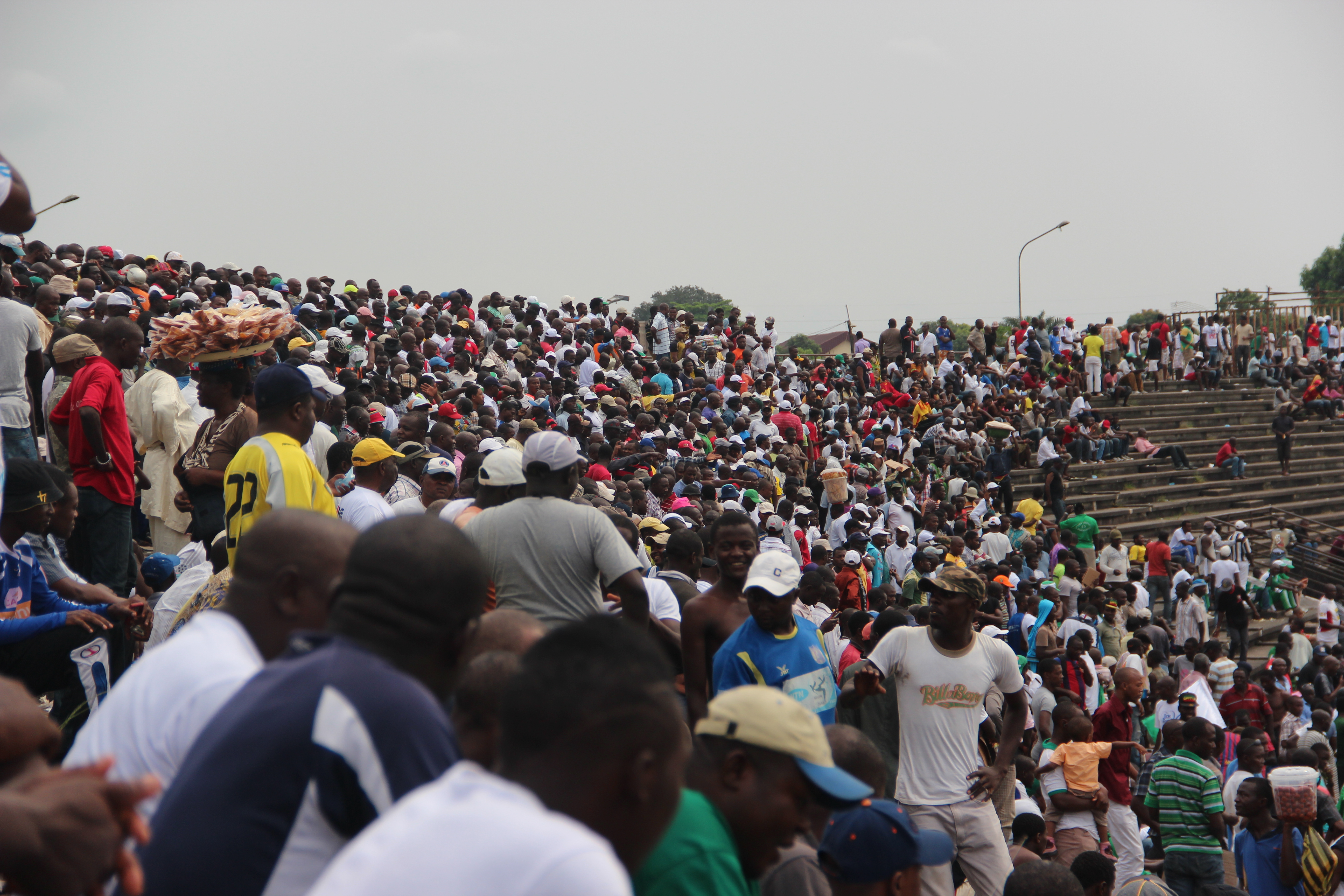 Elite One — 24 February 2013, Stade de la Réunification, Douala. Match between: Union Douala — Sable FC